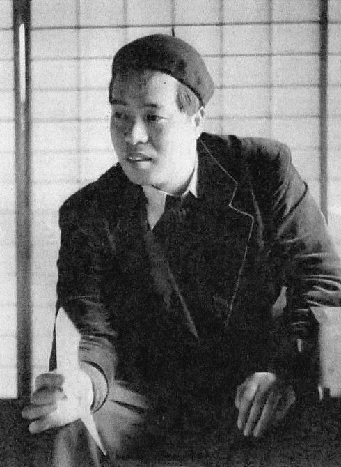 Katsumi Masuko